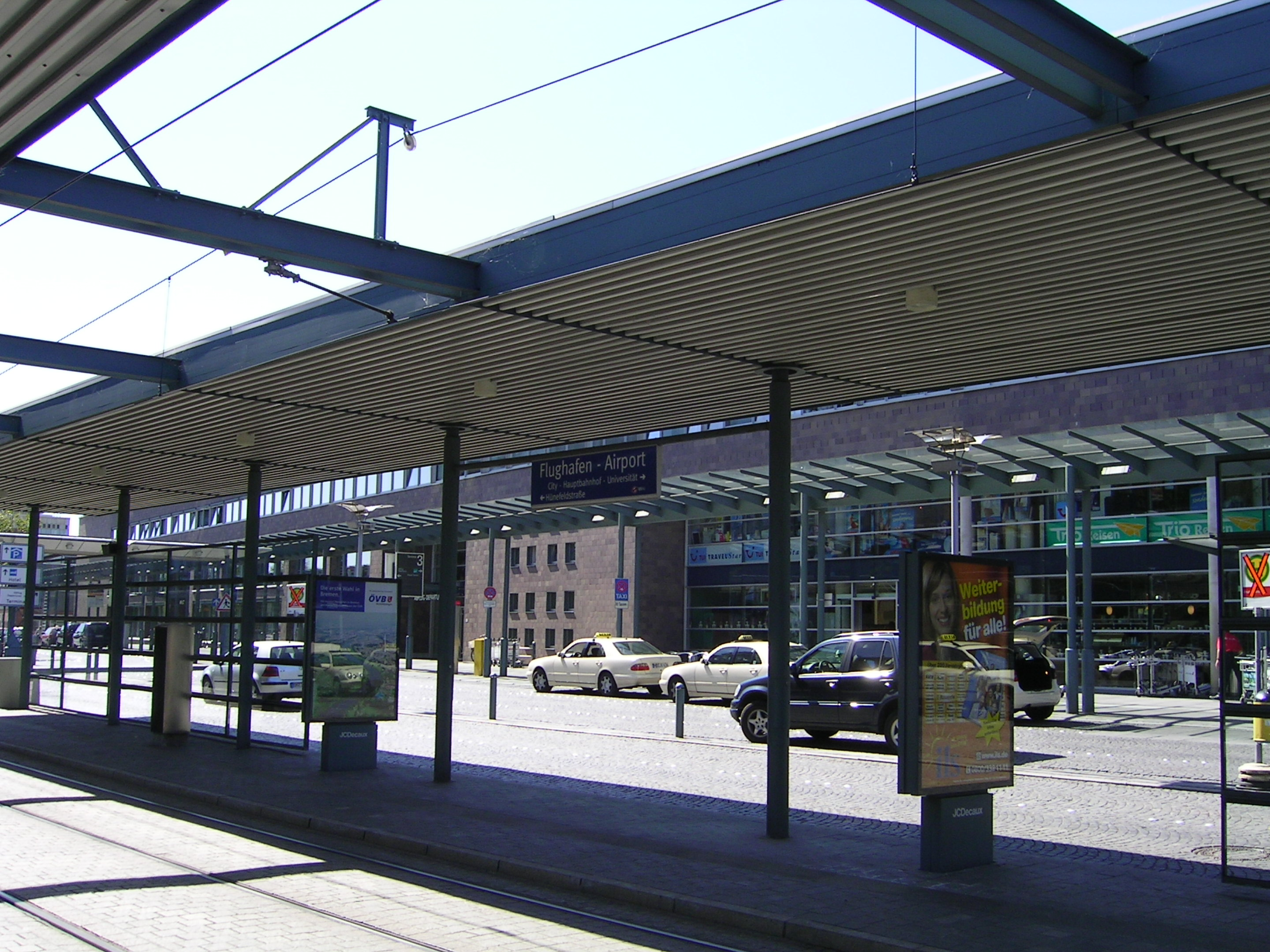 Bremen Airport